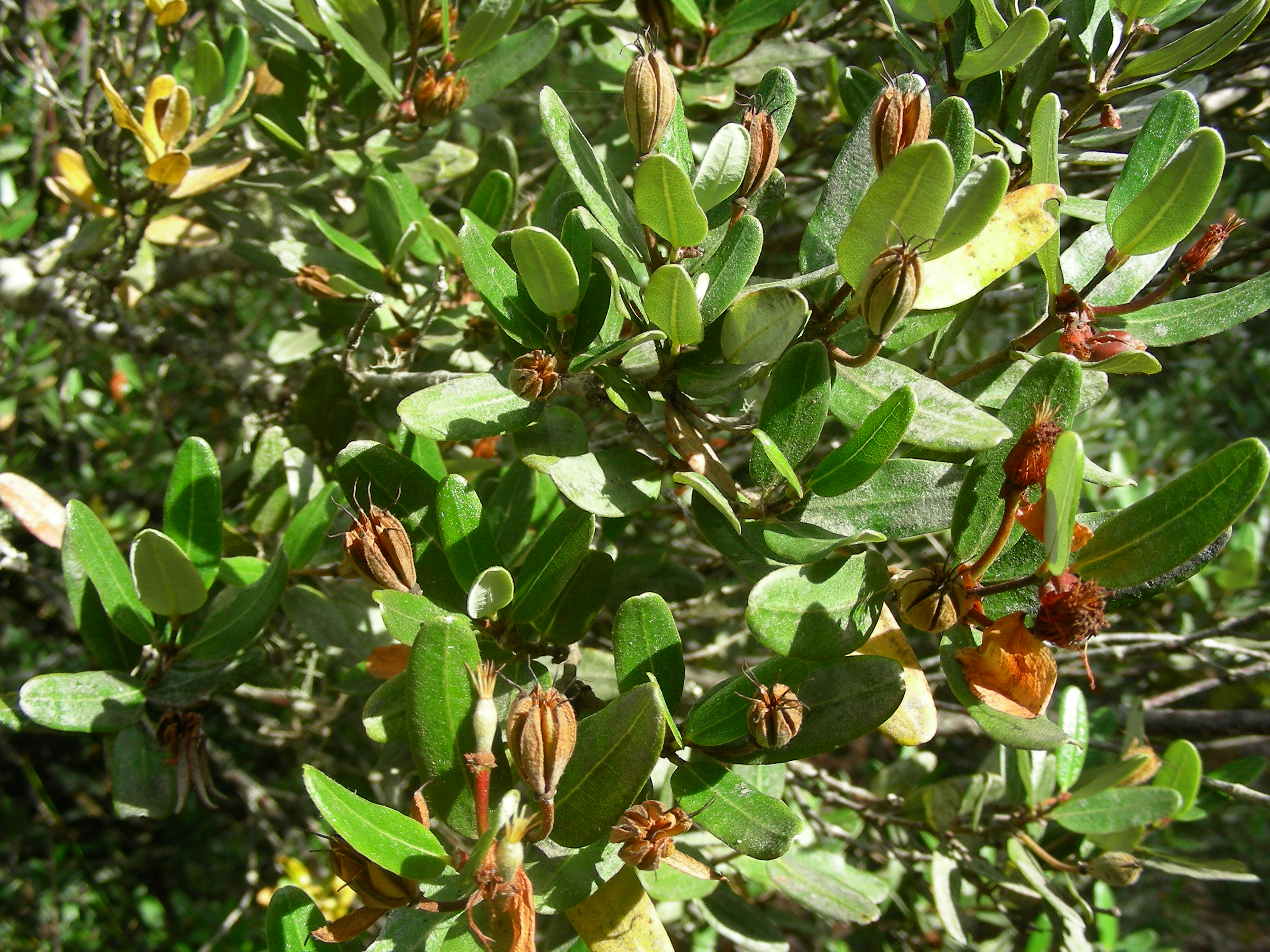 Eucryphia lucida Leatherwood, foliage and opening ripe fruits. Day 5 Overland Track, Cradle Mountain - Lake St Claire National Park, Tasmania, Australia 17 April 2013 by Doug Beckers